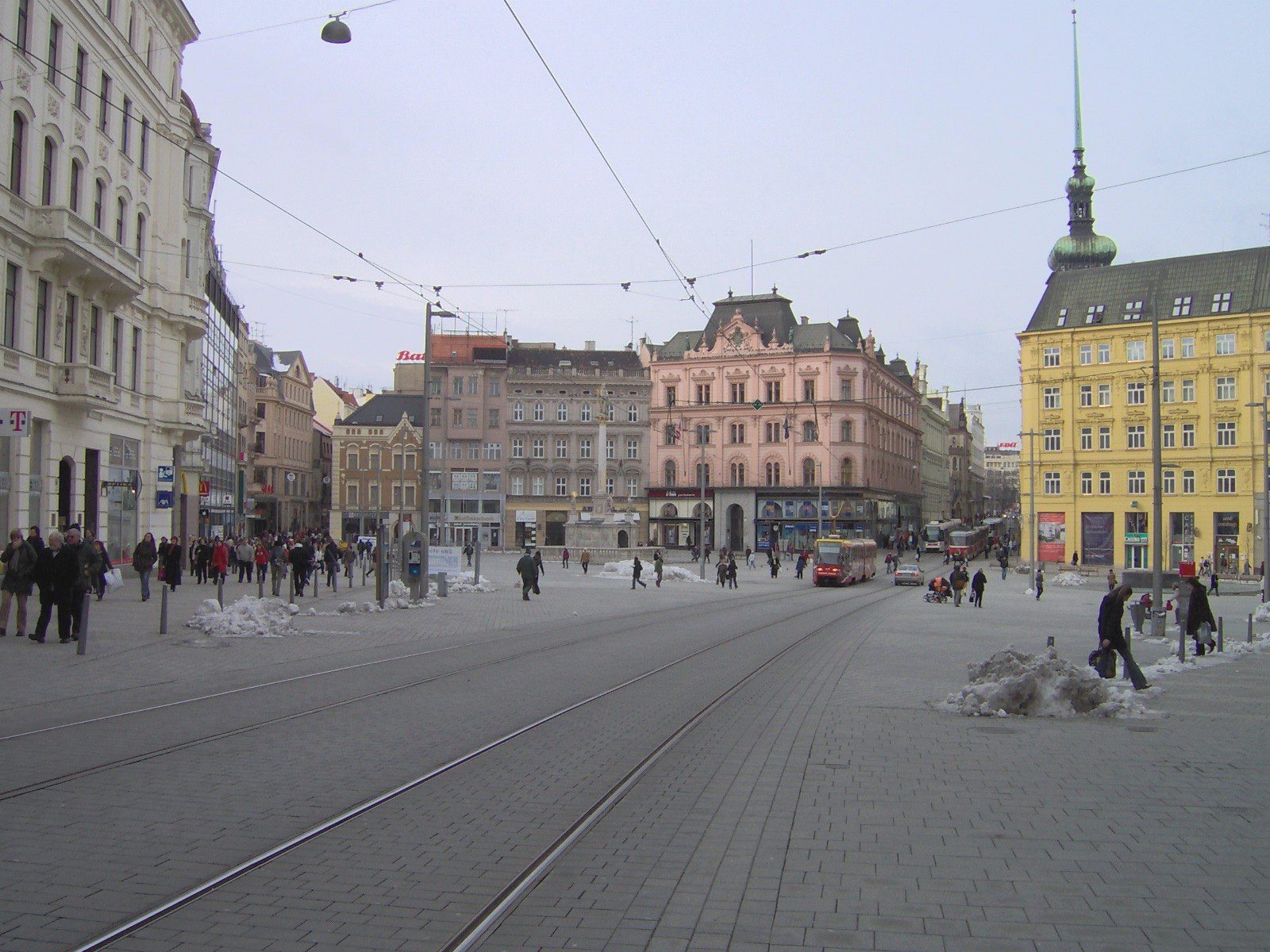 Tram track in Freedom Square, Brno, Czech Republic